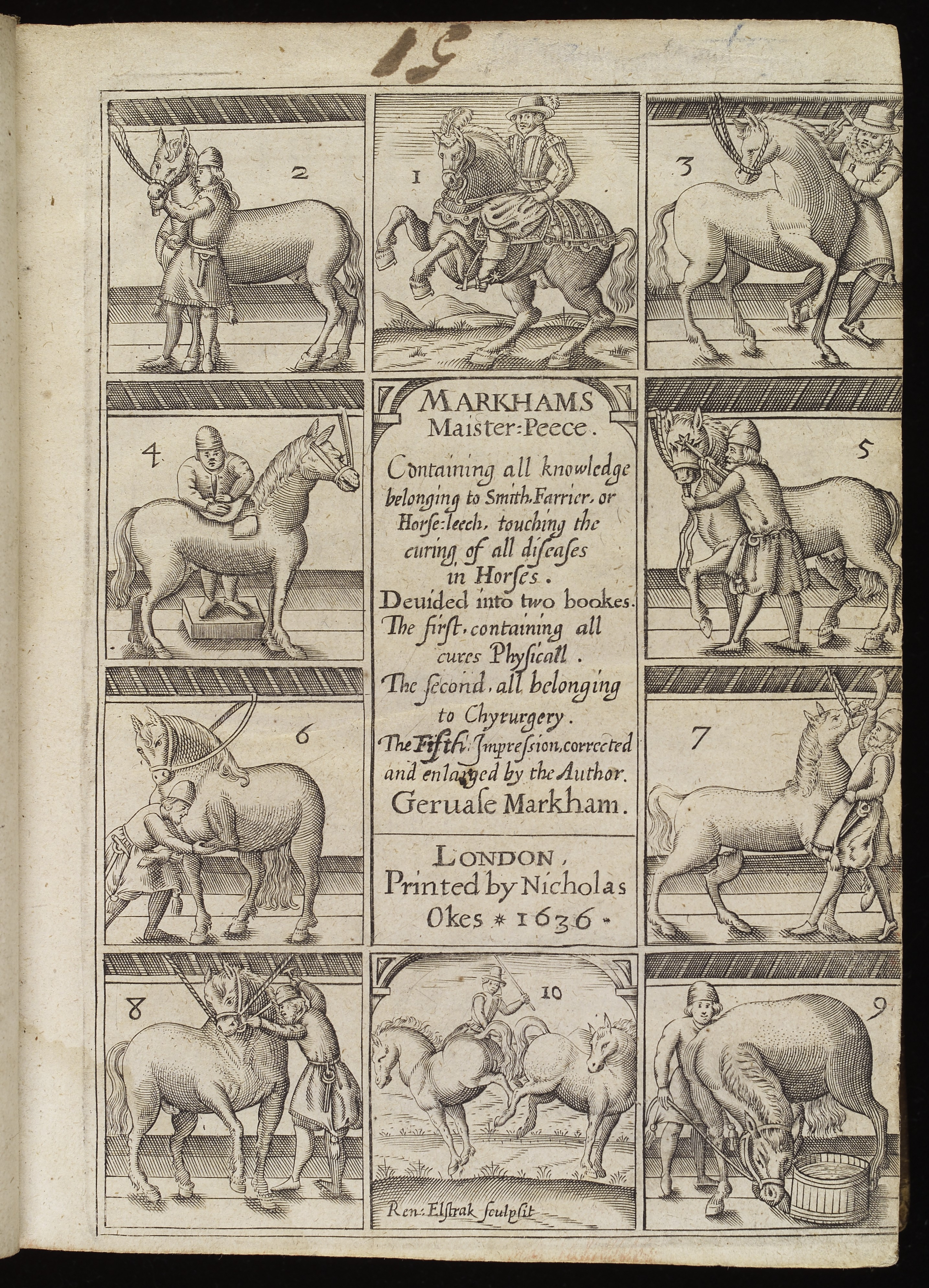 Frontispiece of 'Markhams Maisterpeece ...', a book about horses and horsecraft including blacksmiths, farriers, and veterinarian medicine. Rare Books Keywords: Veterinary Medicine; Horses; Horse; Book; Blacksmith; Books